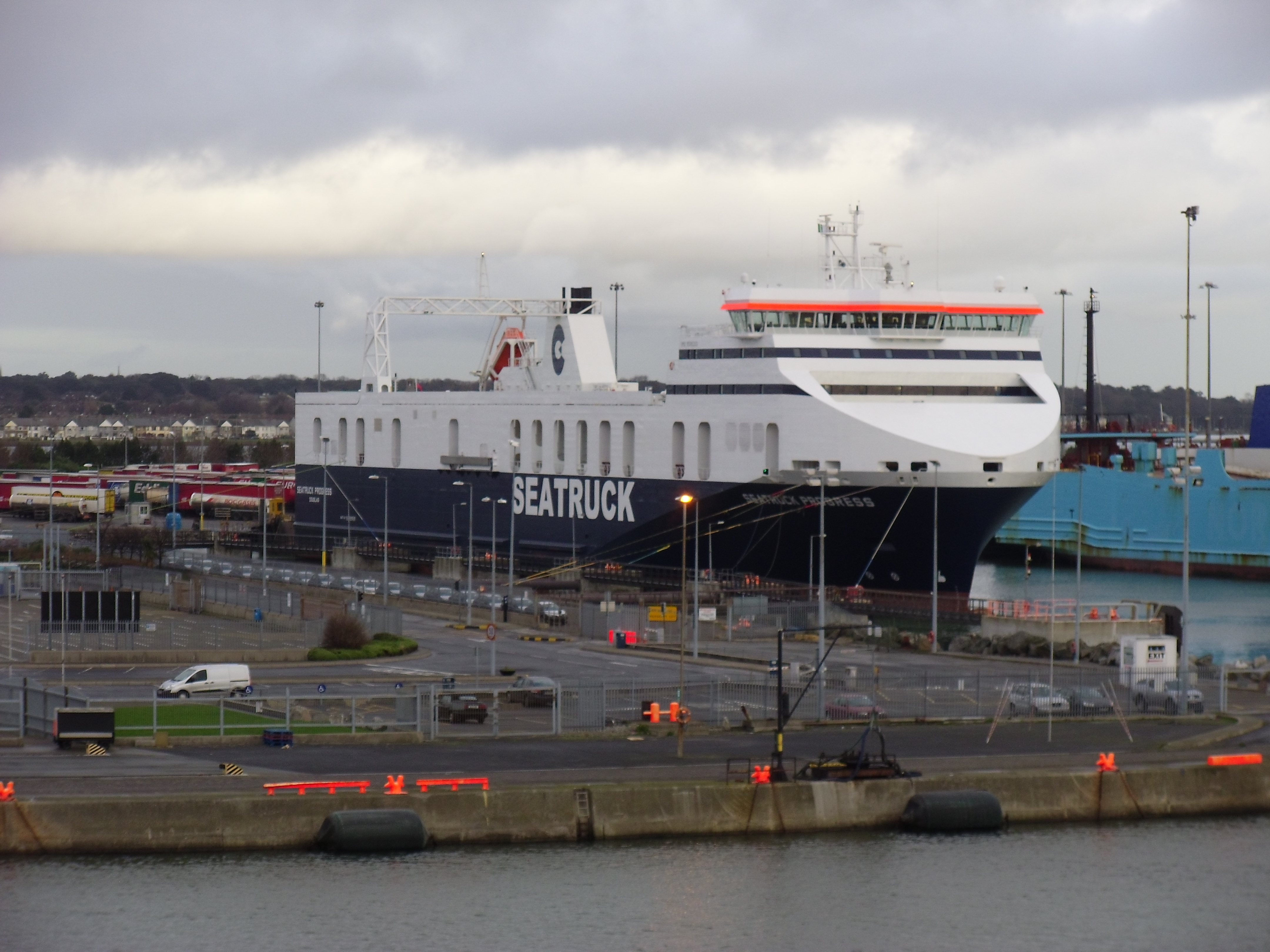 SEATRUCK PROGRESS in Dublin; February 2012.